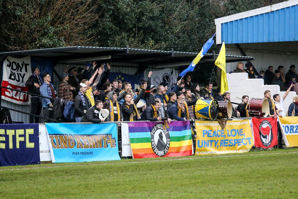 Pier Pressure are the fan base of Eastbourne Town Football Club